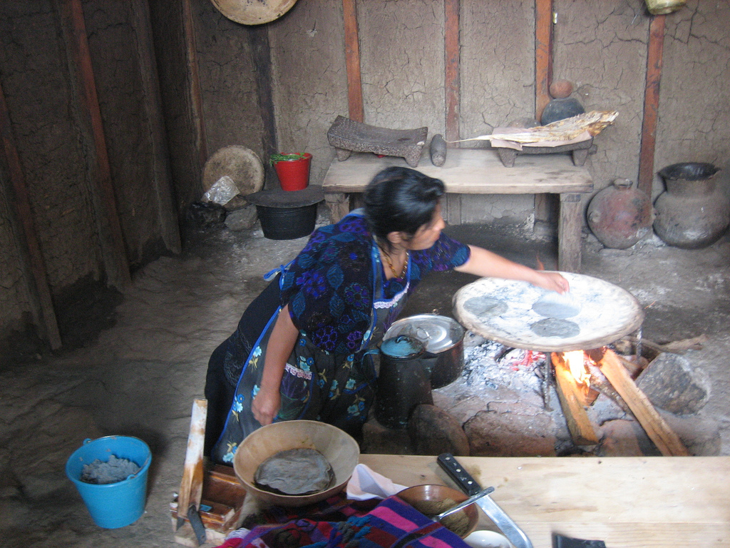 Delicious. Did someone say homemade tortillas?